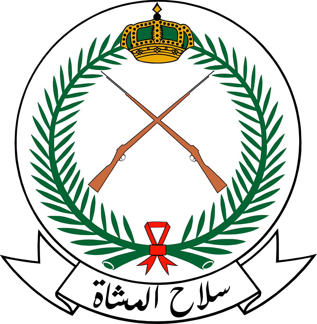 Infantry Corps (Royal Saudi Land Forces)